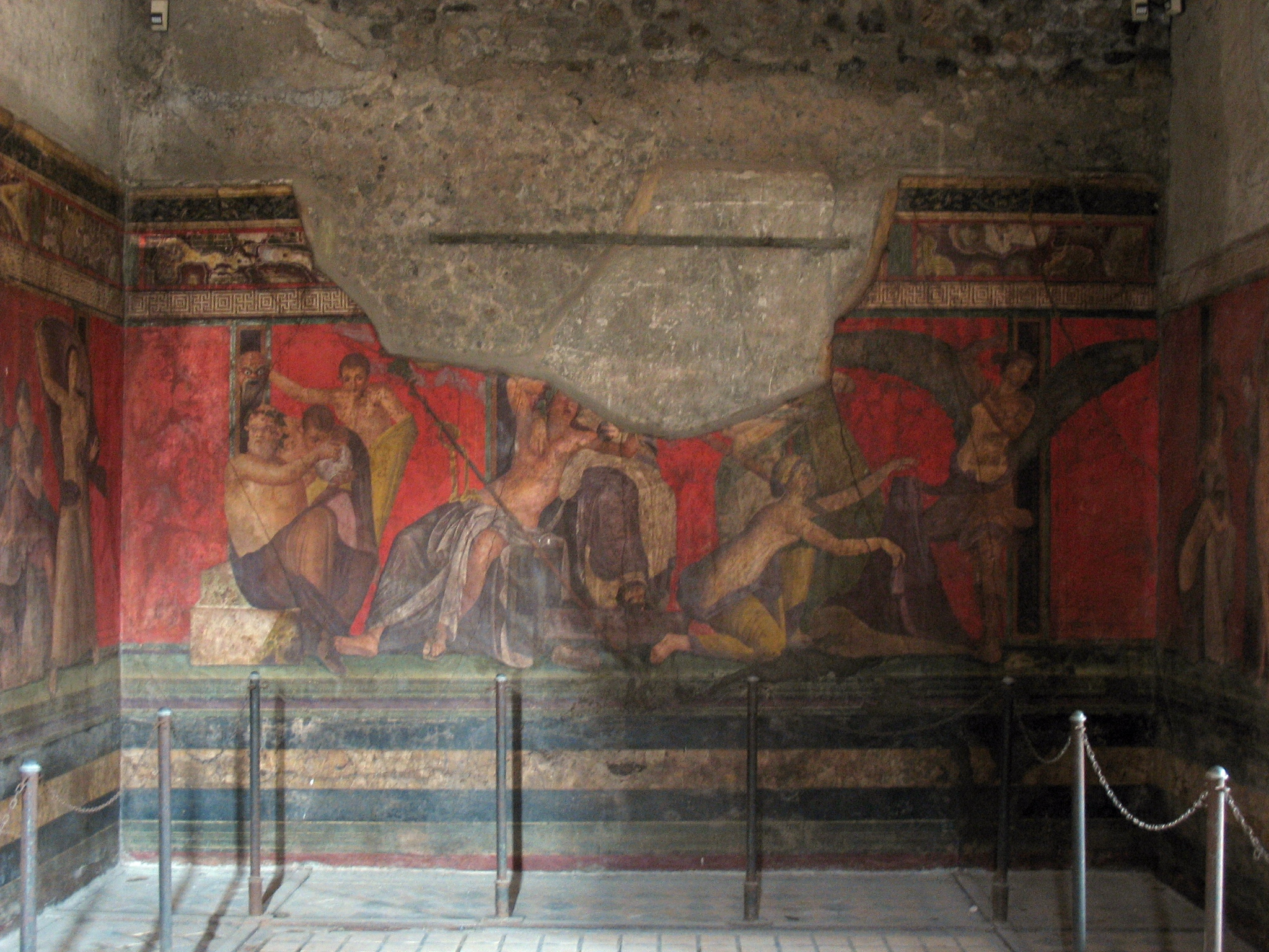 A photograph of the Hall of the Mysteries from the Villa of the Mysteries, a villa located near Pompeii, taken by myself on January 16, 2006.